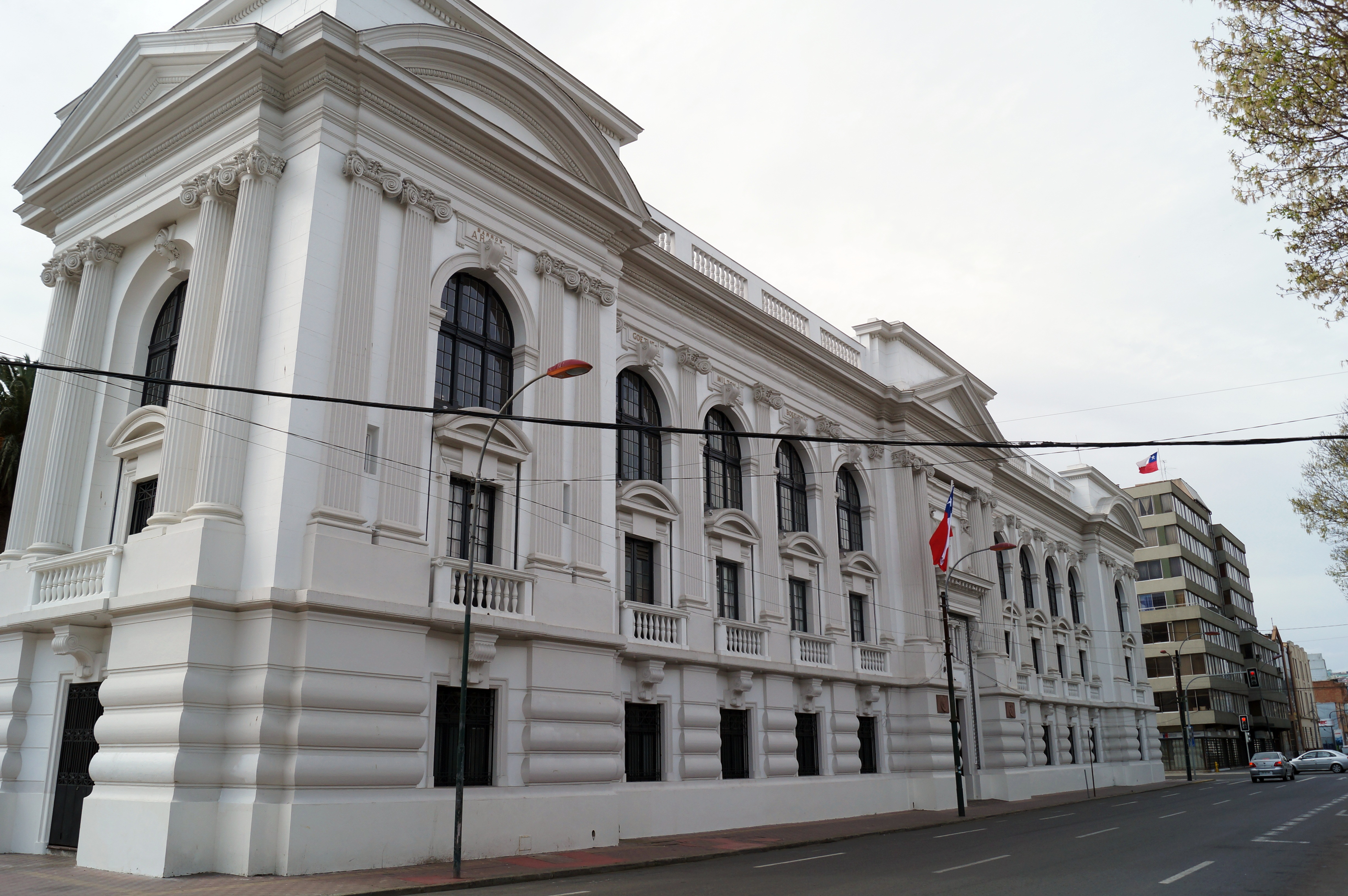 This is a photo of a national monument in Chile: 780